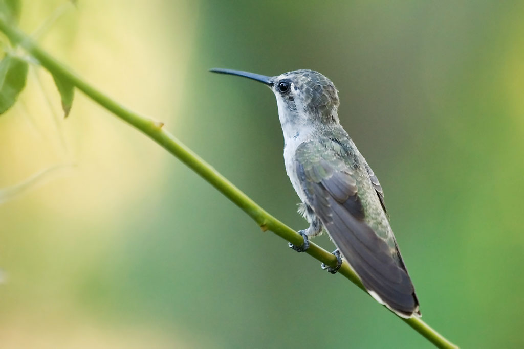 A female Costa's Hummingbird (Calypte costae).